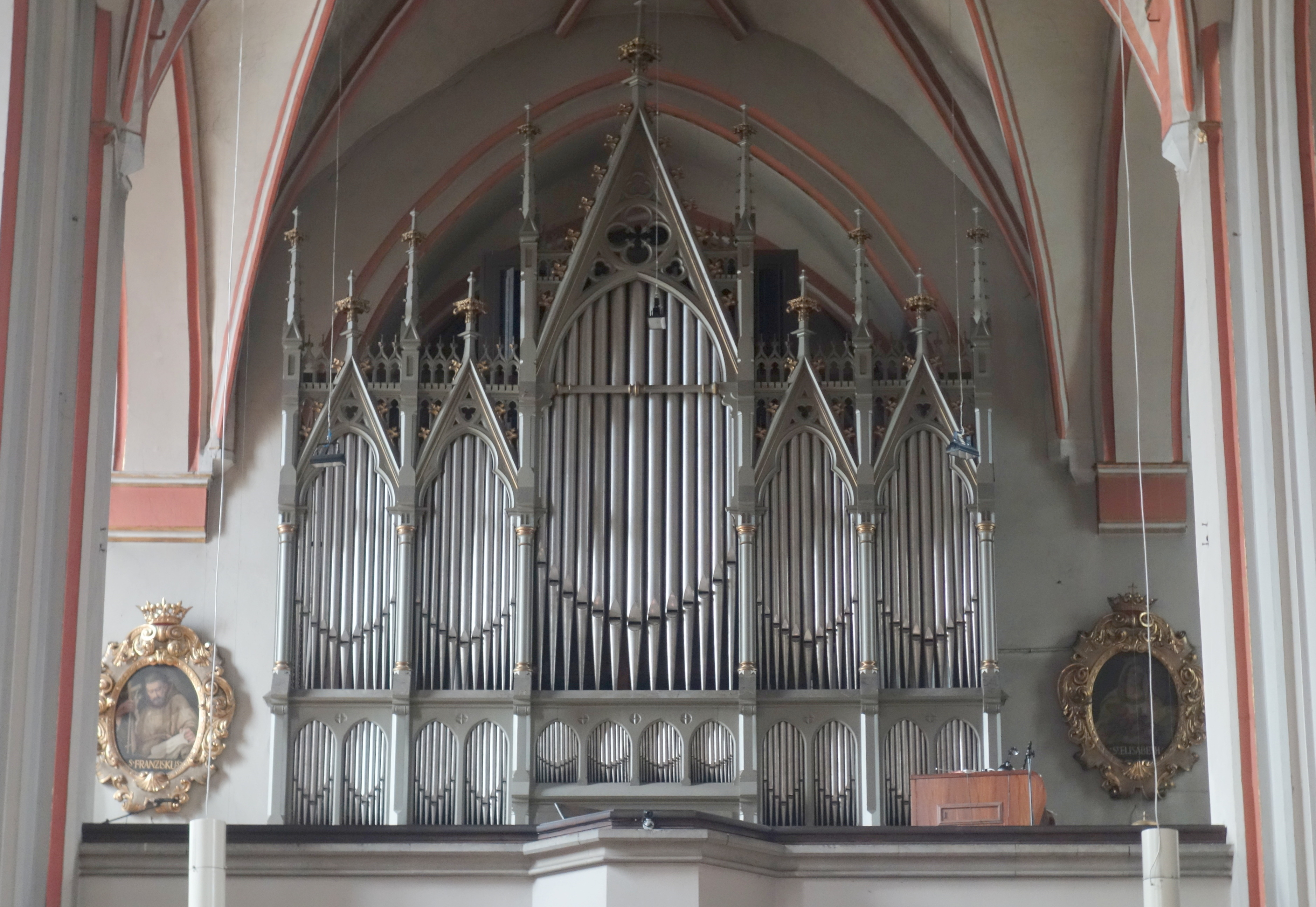 Opole Cathedral, Poland